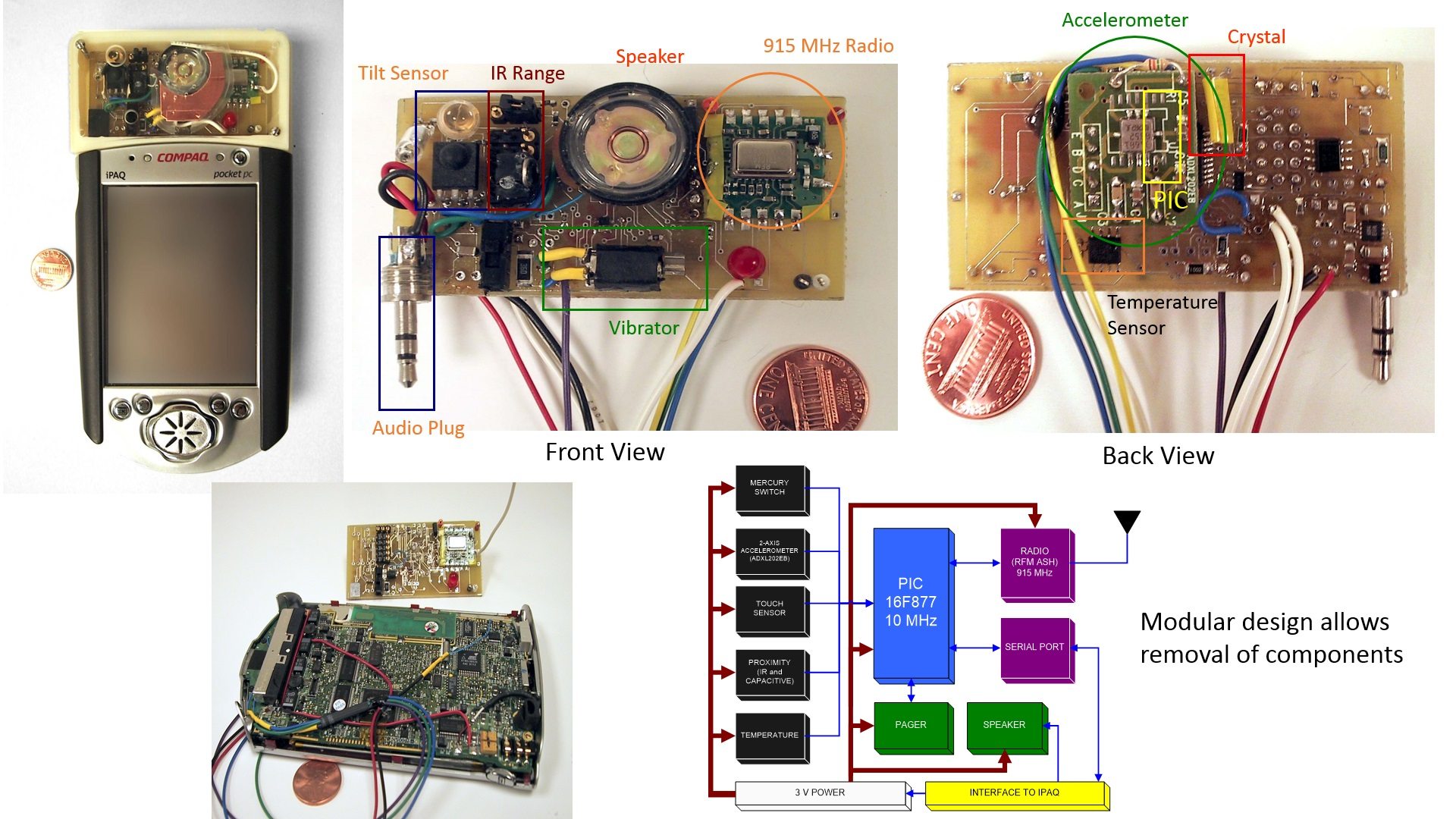 From personal communication with the creator of Wake on wireless (Victor Bahl).